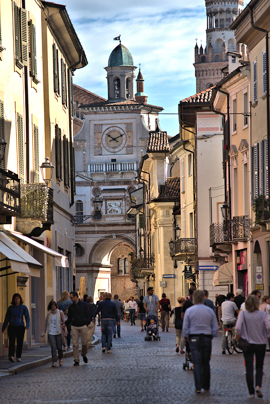 The city gate called Torrazzo photographed from via XX Settembre in Crema (Italy)